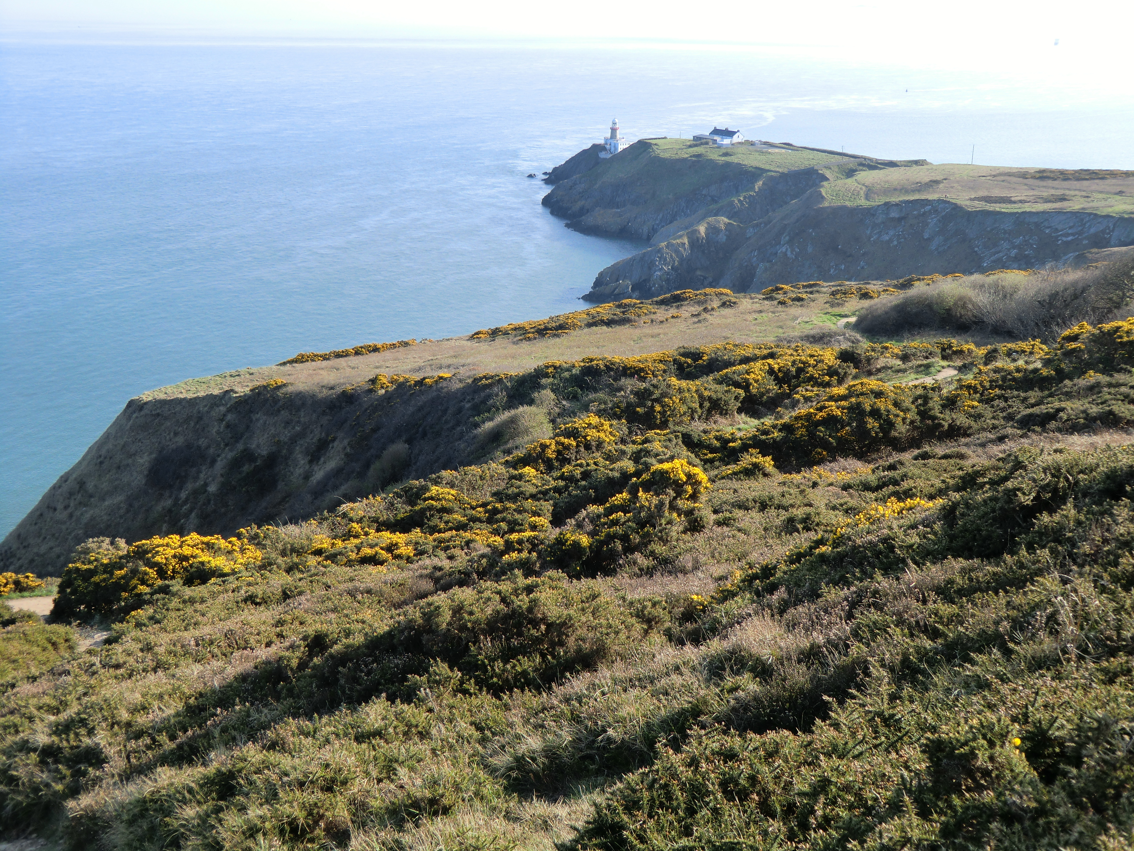 cliffs at Howth Head, Dublin, Ireland - overlooking Whitewater Brook Cove, with the Baily headland, and Baily Lighthouse, in the distance